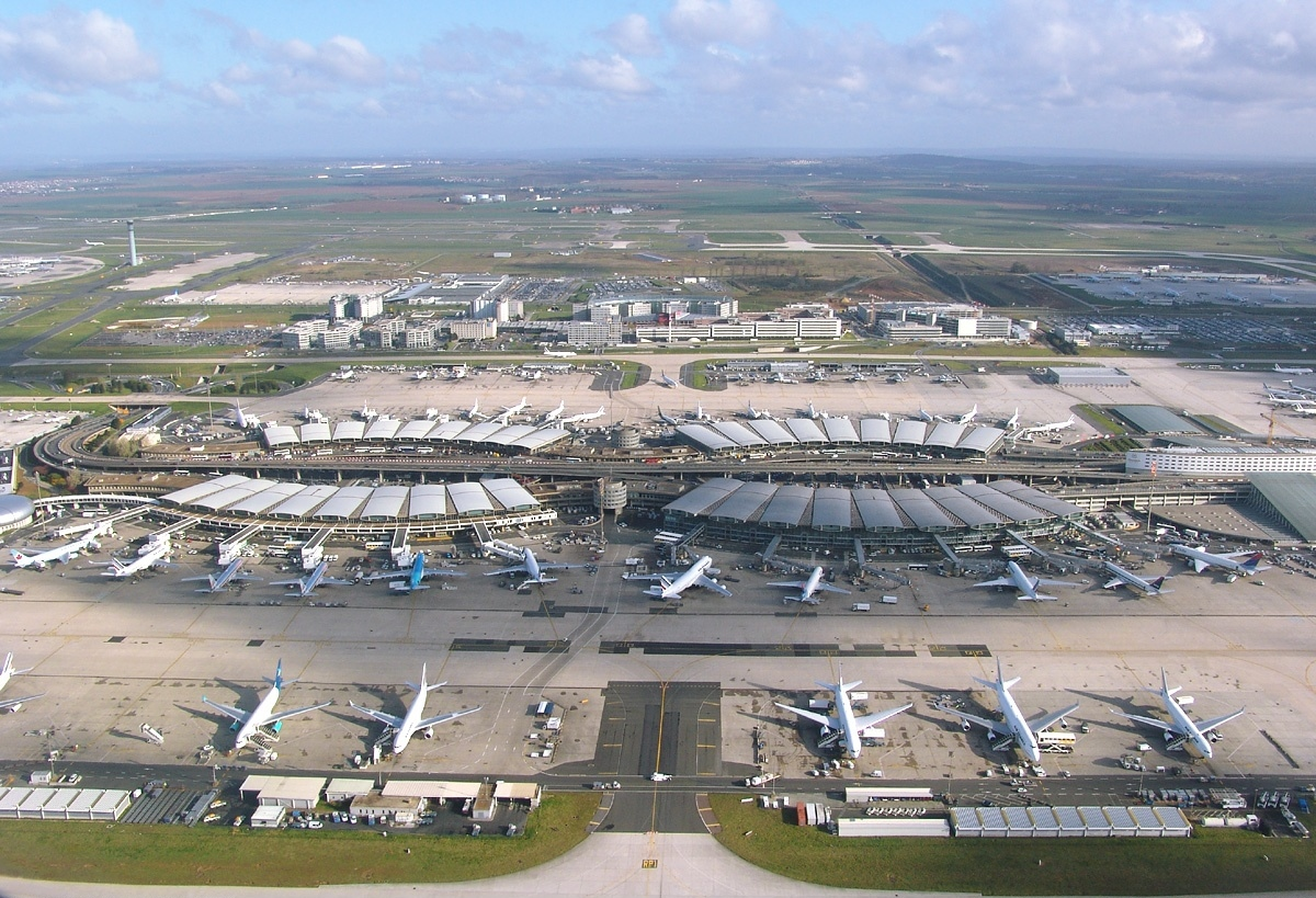 Terminal 2 at Charles de Gaulle (Roissy) Airport (CDG/LFPG) in Paris, France